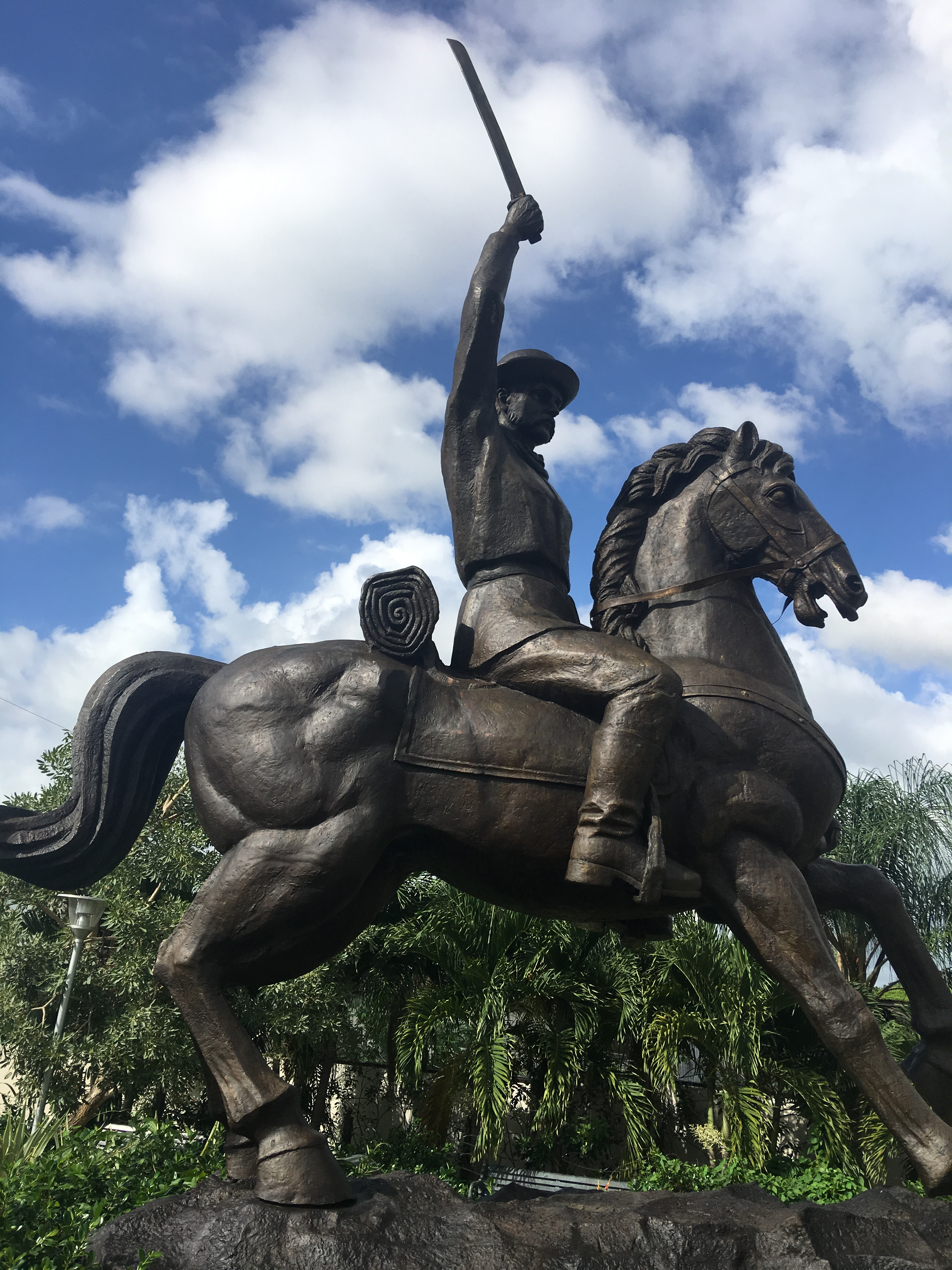 Statue of Juan Ríus Rivera in Mayagüez, PR (Sculpture by Salvador Rivera Cardona, 2013)